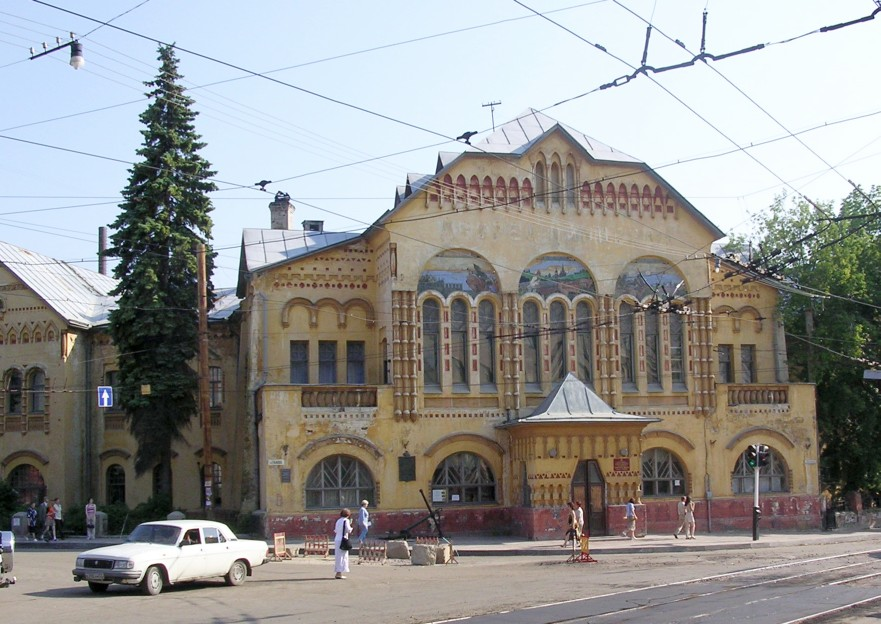 Nizhny Novgorod, Palace of Children's Creativity (39, Piskunov St), former Farmer's Bank (until 1918), built in 1913-16 by Fyodor Osipovich Livchak.